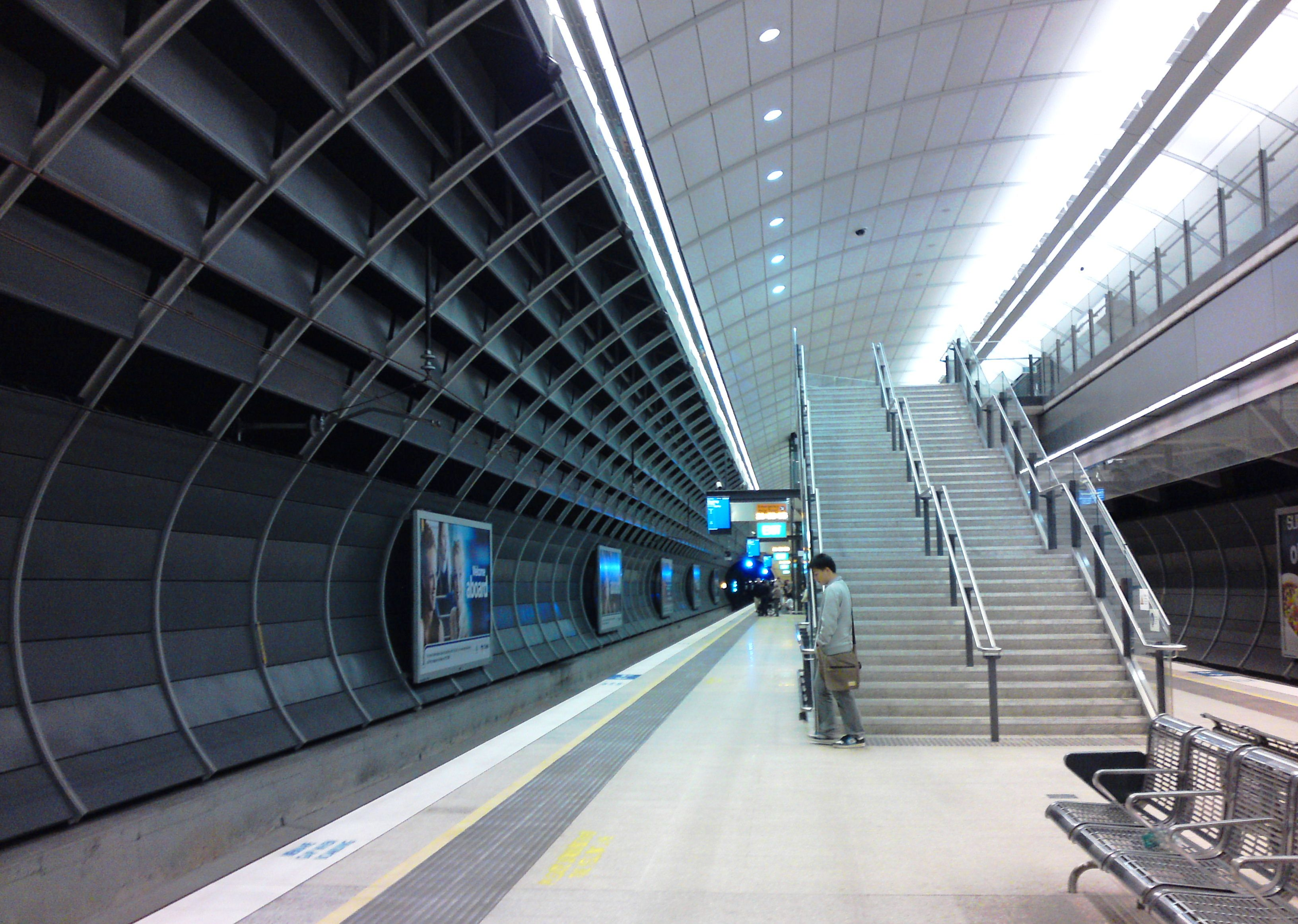 Platform view of a staircase at Macquarie University railway station in Sydney, Australia.